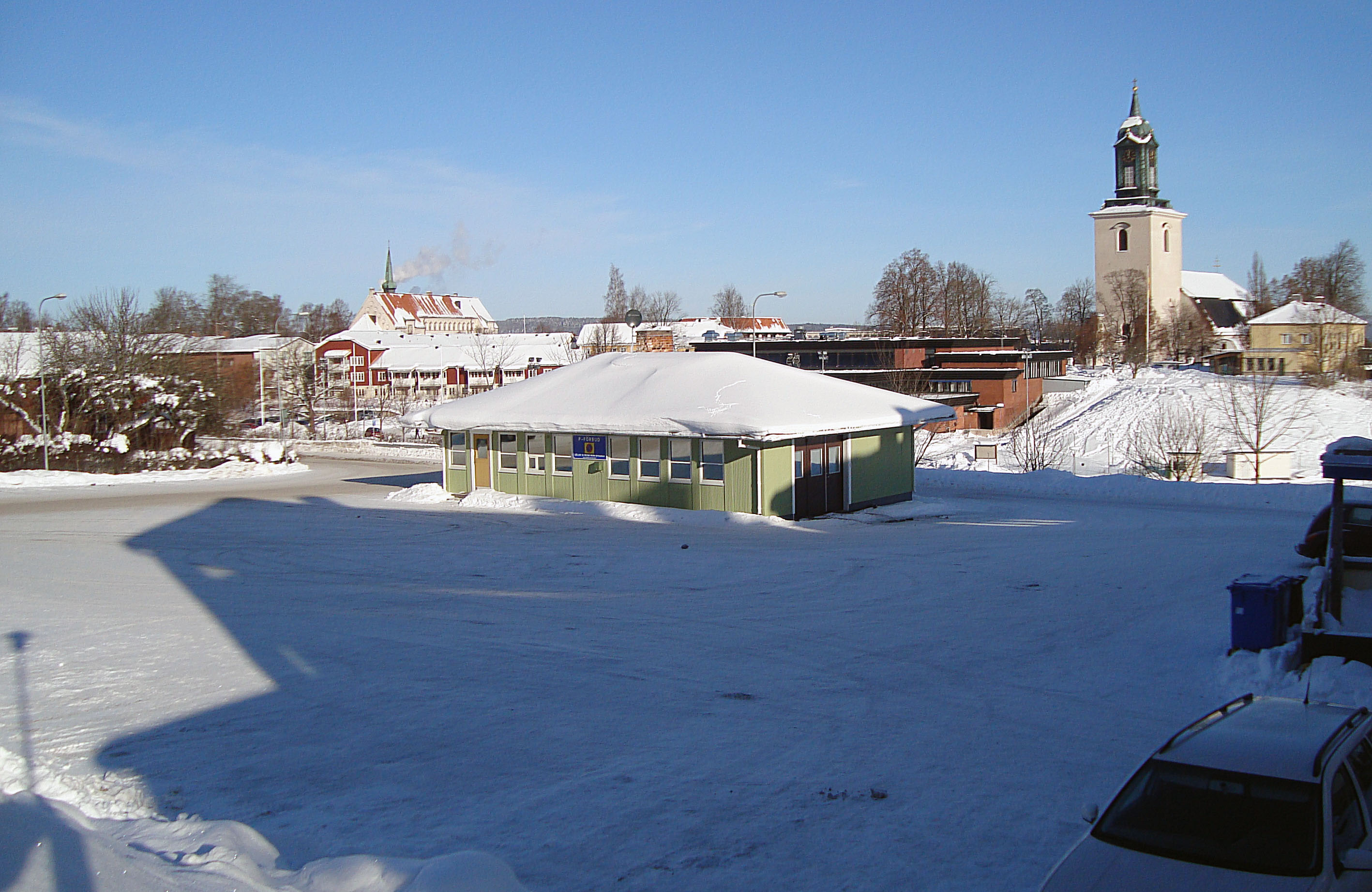 August Lindbergs plan, Hedemora, Sweden. In the background, from left: Tjädernhuset (brick building) (Municipality office), Vasaskolan (white building with spire) (~highschool), Vasahallen (brick building) (sports facility), Hedemora kyrka (church). Green house in foreground used to hold the taxi company of Hedemora.